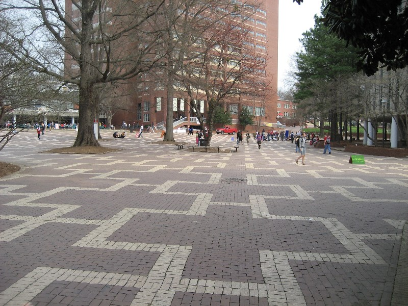 Picture taken by me on Wednesday, March 14, 2007. It is a picture of the Brickyard at North Carolina State University.